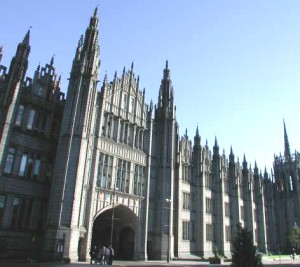 Marischal College, part of the University of Aberdeen at the time